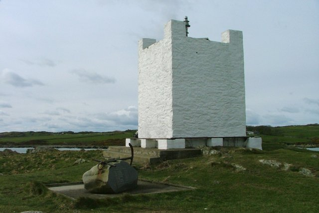 Signalling Tower, Isle Head Standing at the highest point of Isle Head, which actually used to be an island, this tower was used to give approaching ships the state of the tide.